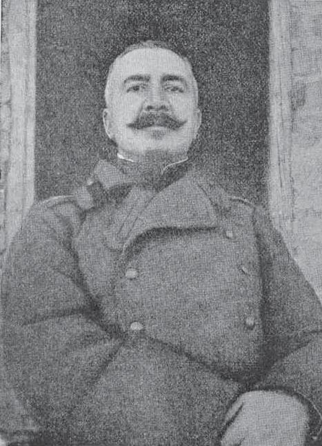 Portrait of d-r Hristo Tatarchev during the Great war as medic in Bulgarian army (1915-1918)